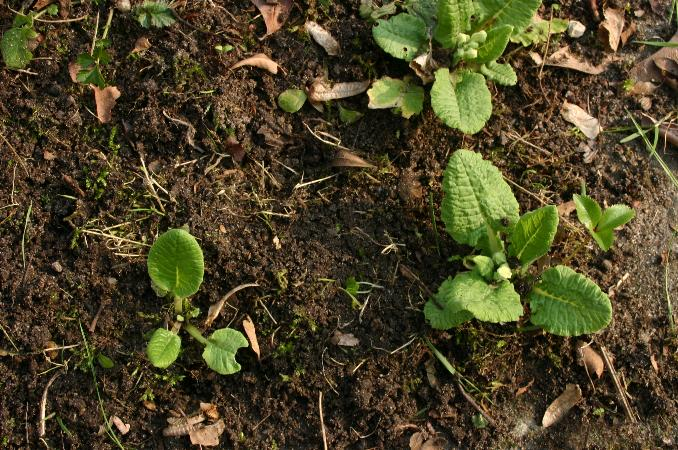 Weeding. This picture must be seen in connection with Image:Lugning1.JPG